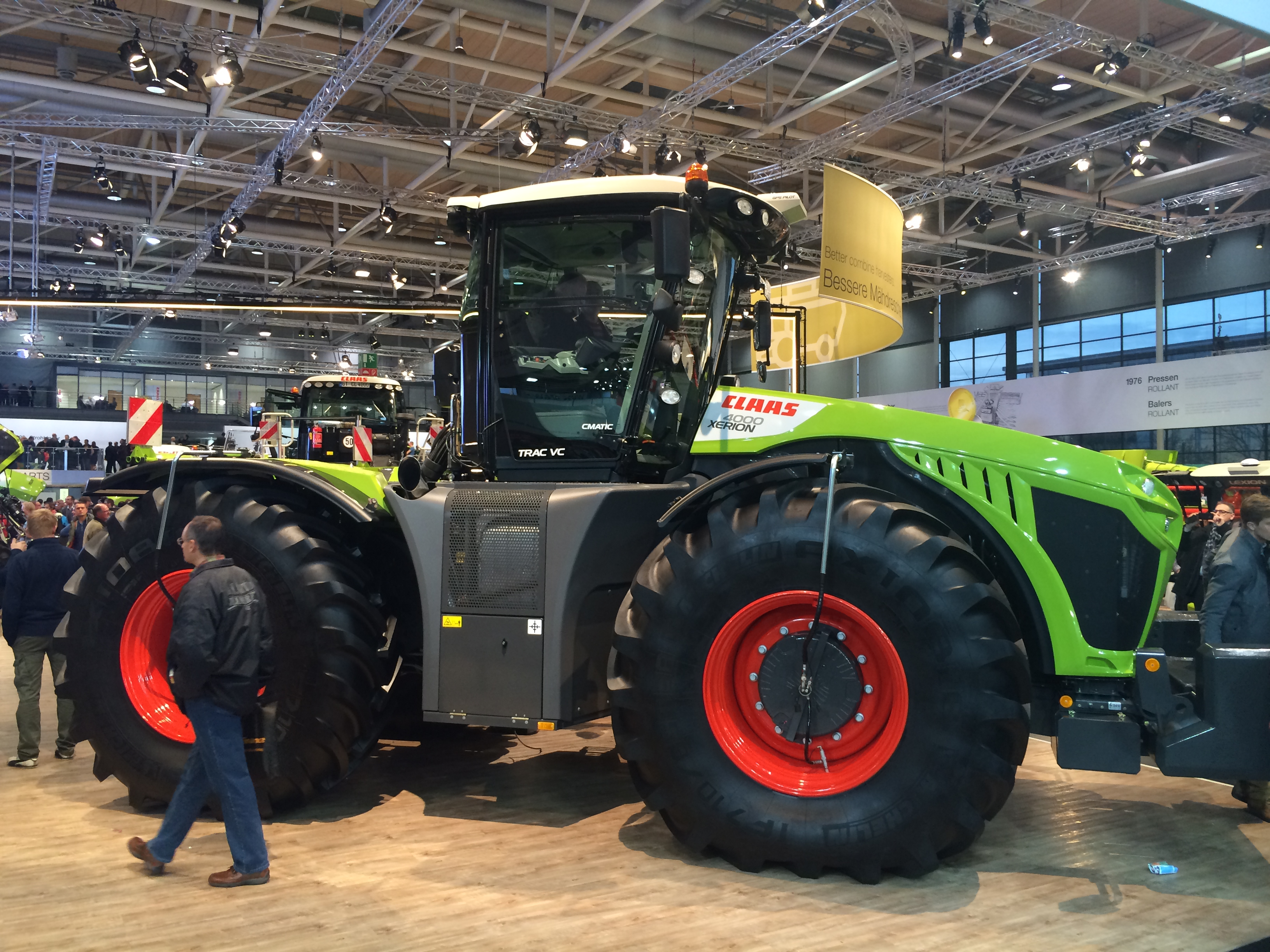 Claas Xerion 4000, Agritechnica